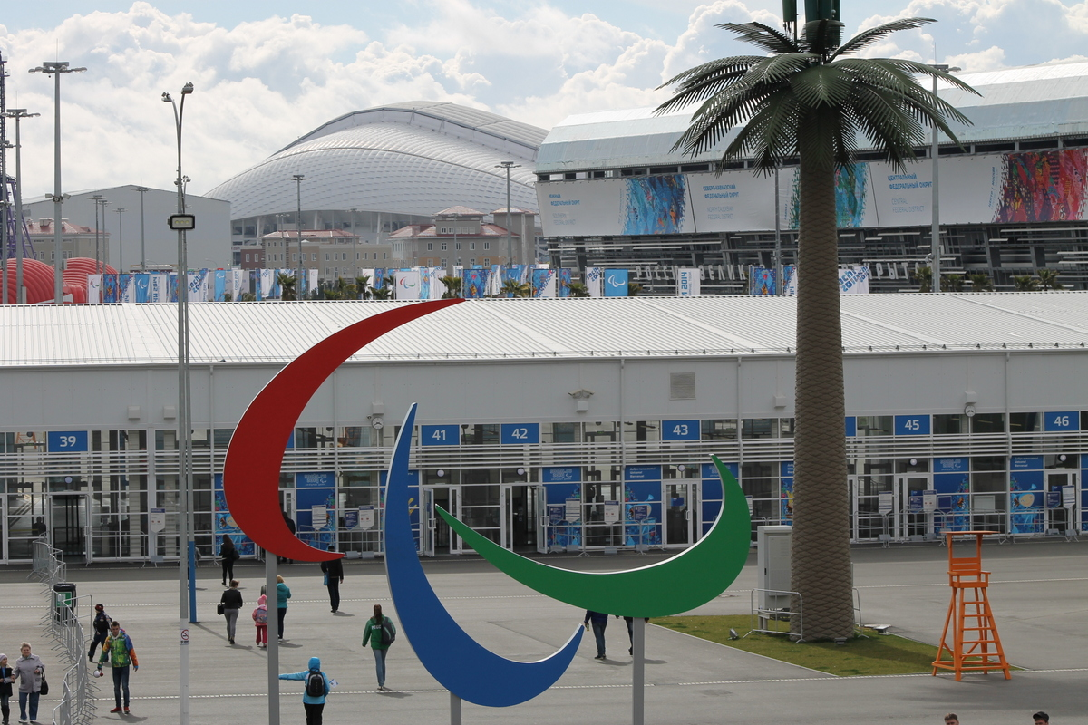 Sochi Olympic Park during the Paralympic Games 2014